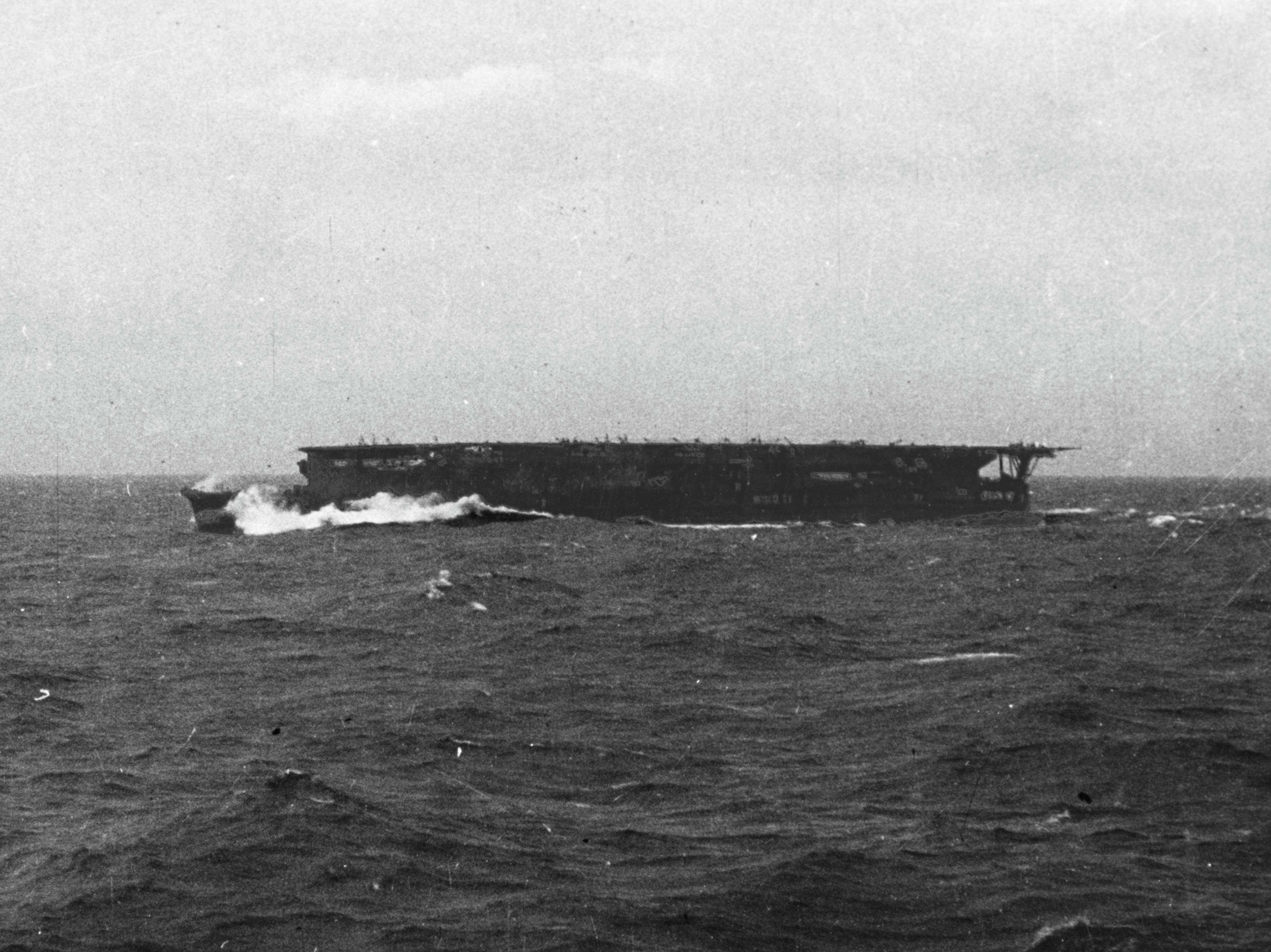 The Japanese light aircraft carrier Ryūjō underway, in September 1938.